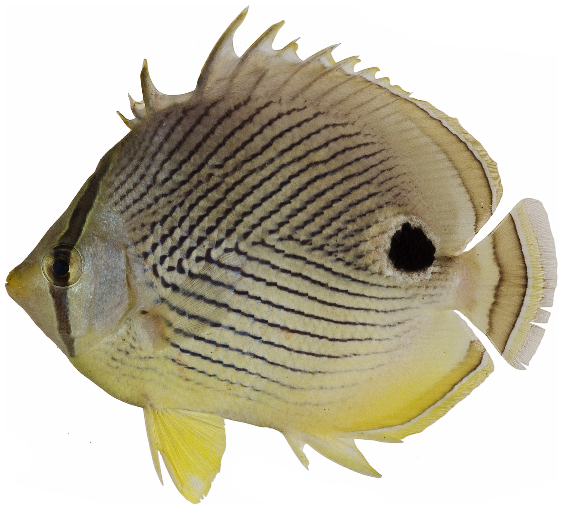 Chaetodon capistratus Linnaeus, 1758—foureye butterflyfish, 99.4 mm SL. When younger, the specimen was apparently injured in the region of the fourth dorsal-fin spine (missing) and the area healed leaving a gap in the fin. Photo by JT Williams.